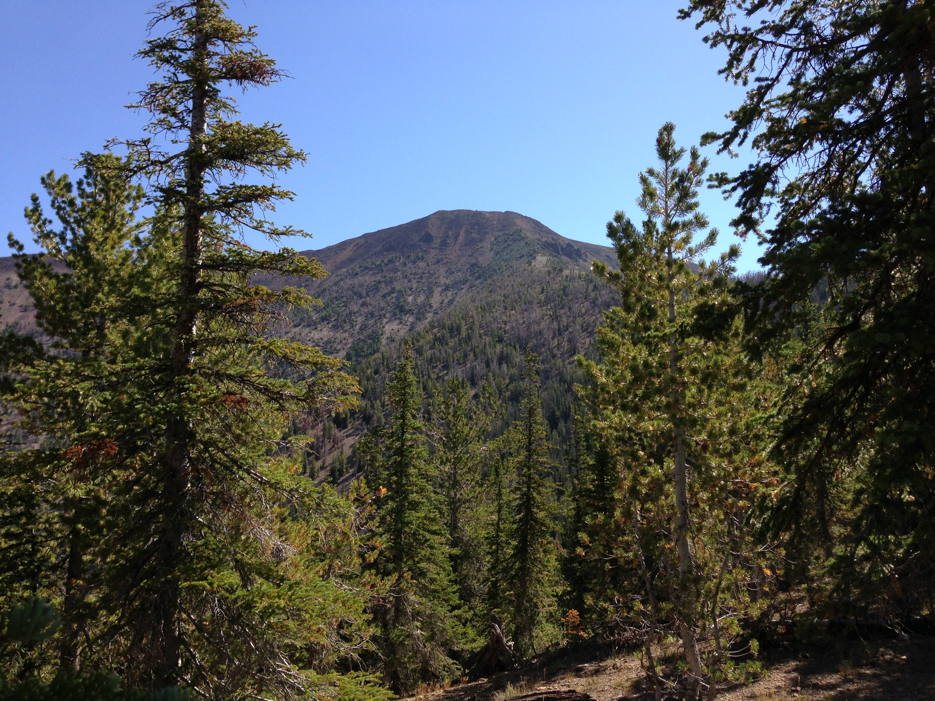 View of Jarbidge Peak through Pinus albicaulis and Abies lasiocarpa forest on the ridge south of Bonanza Gulch on August 15th 2013